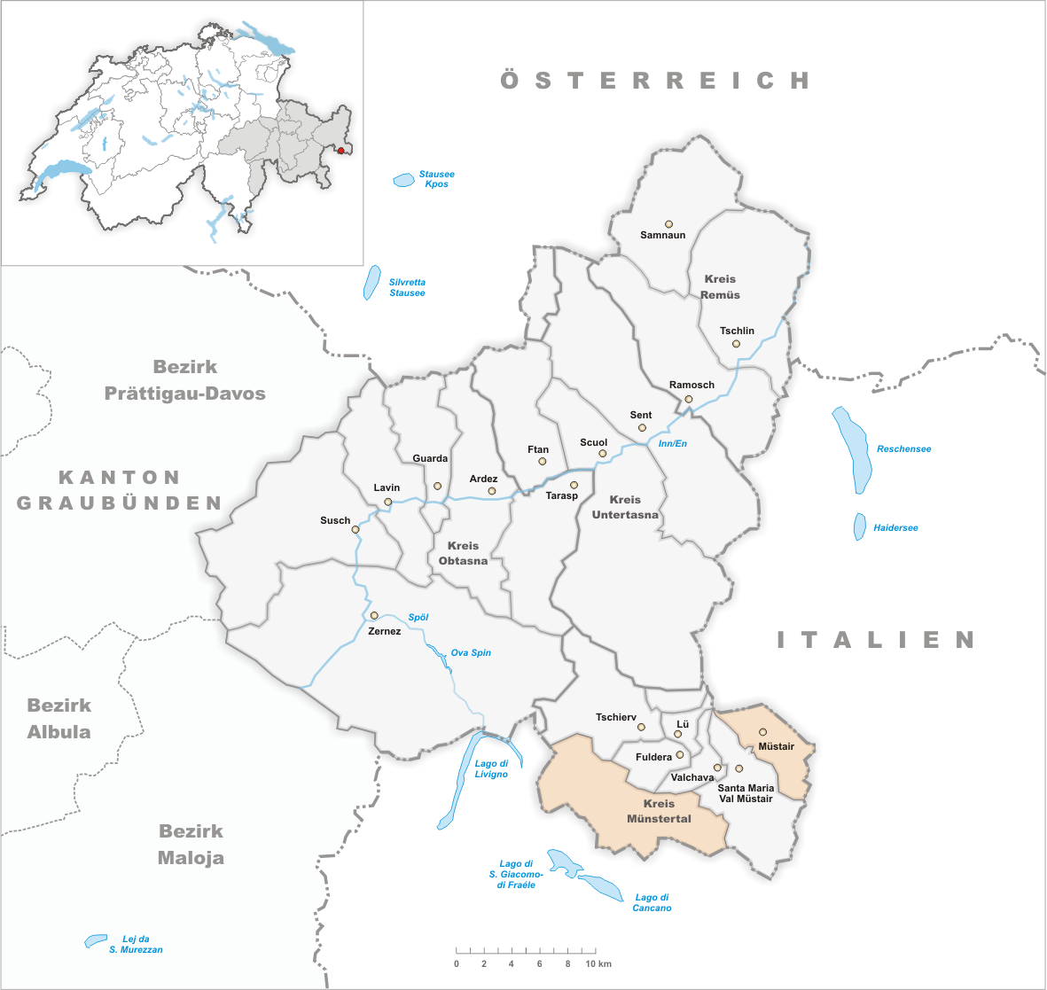 Municipality Müstair